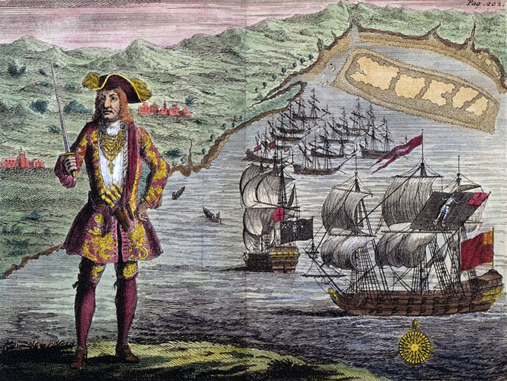 Captain Bartho. Roberts with two Ships, Viz the Royal Fortune and Ranger, takes in Sail in Whydah Road on the Coast of Guiney, January 11th. 1721/2.: a copper engraving[1]